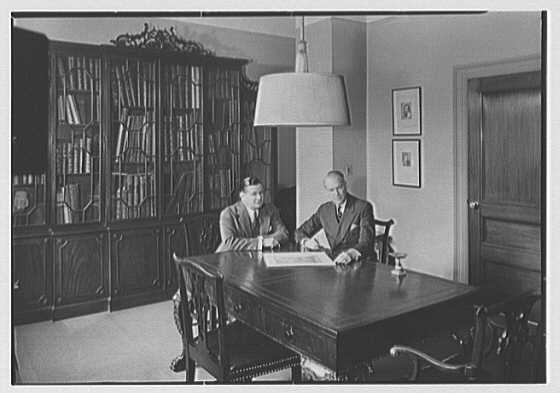 Eggers & Higgins, 542 5th Ave., New York City. Clients' room with Messrs. Eggers and Higgins.